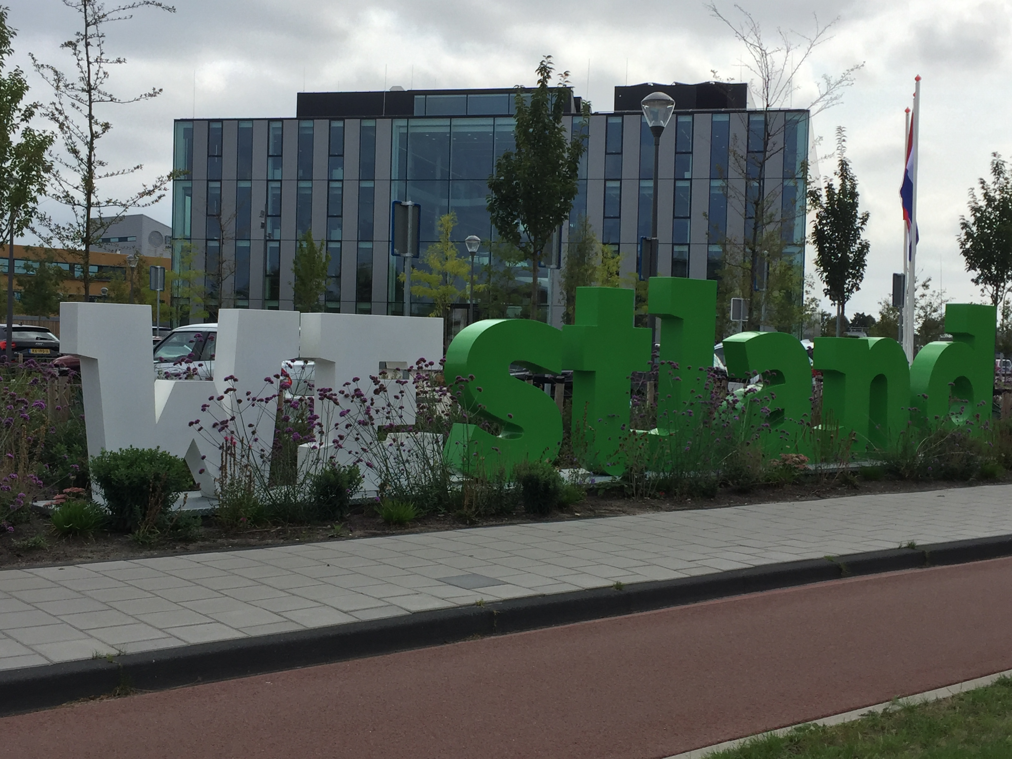 Gemeentehuis Westland (kantoren), Laan van de Glazen Stad, Naaldwijk (Westland, the Netherlands)